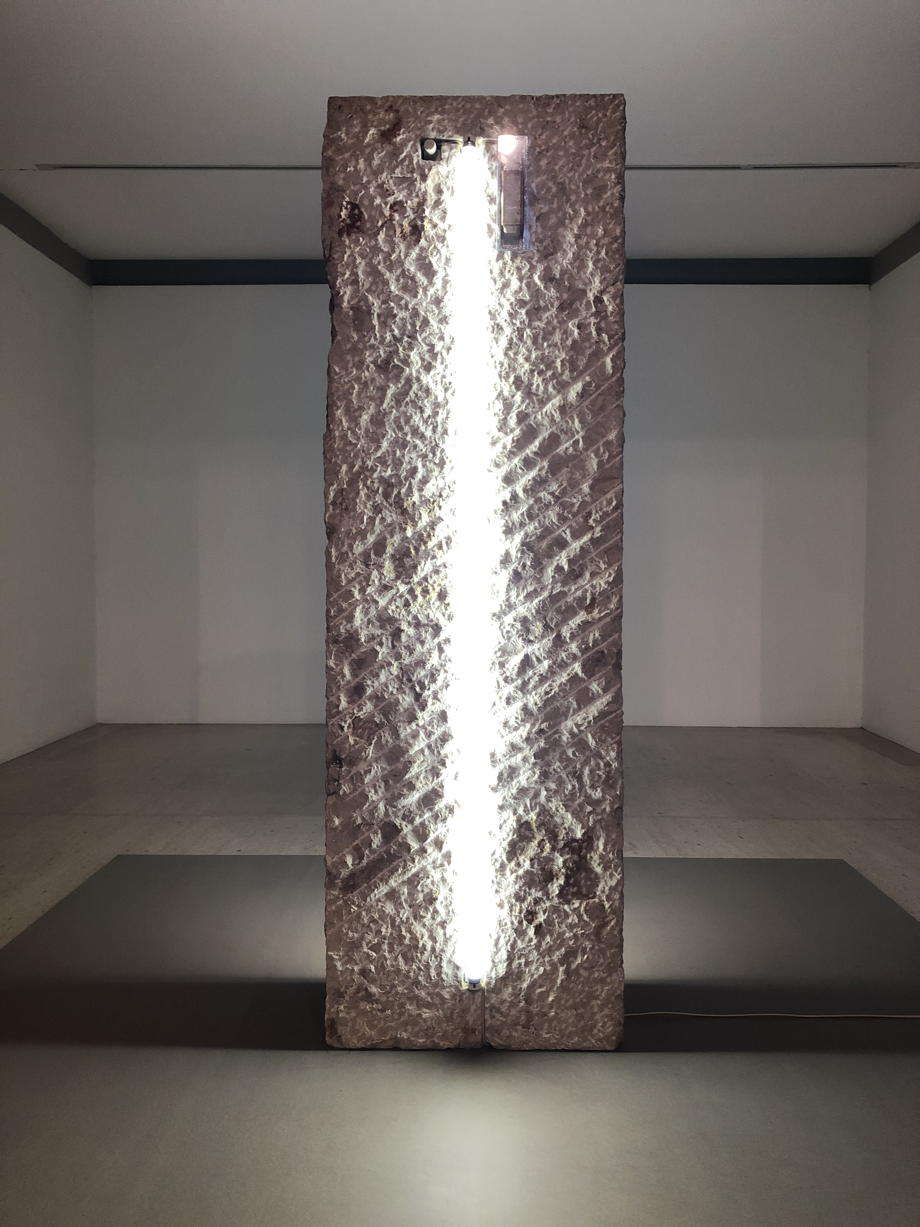 Clara Meneres (1943-2018) Lapis Cognitionis 1987 in exhibition at Modern Collection of Calouste Gulbenkian Foundation, December 2019.